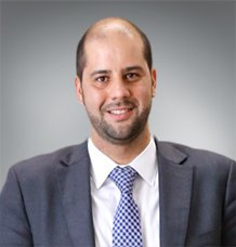 Official photo of Javier Naranjo Solano as Undersecretary of the Environment in 2020